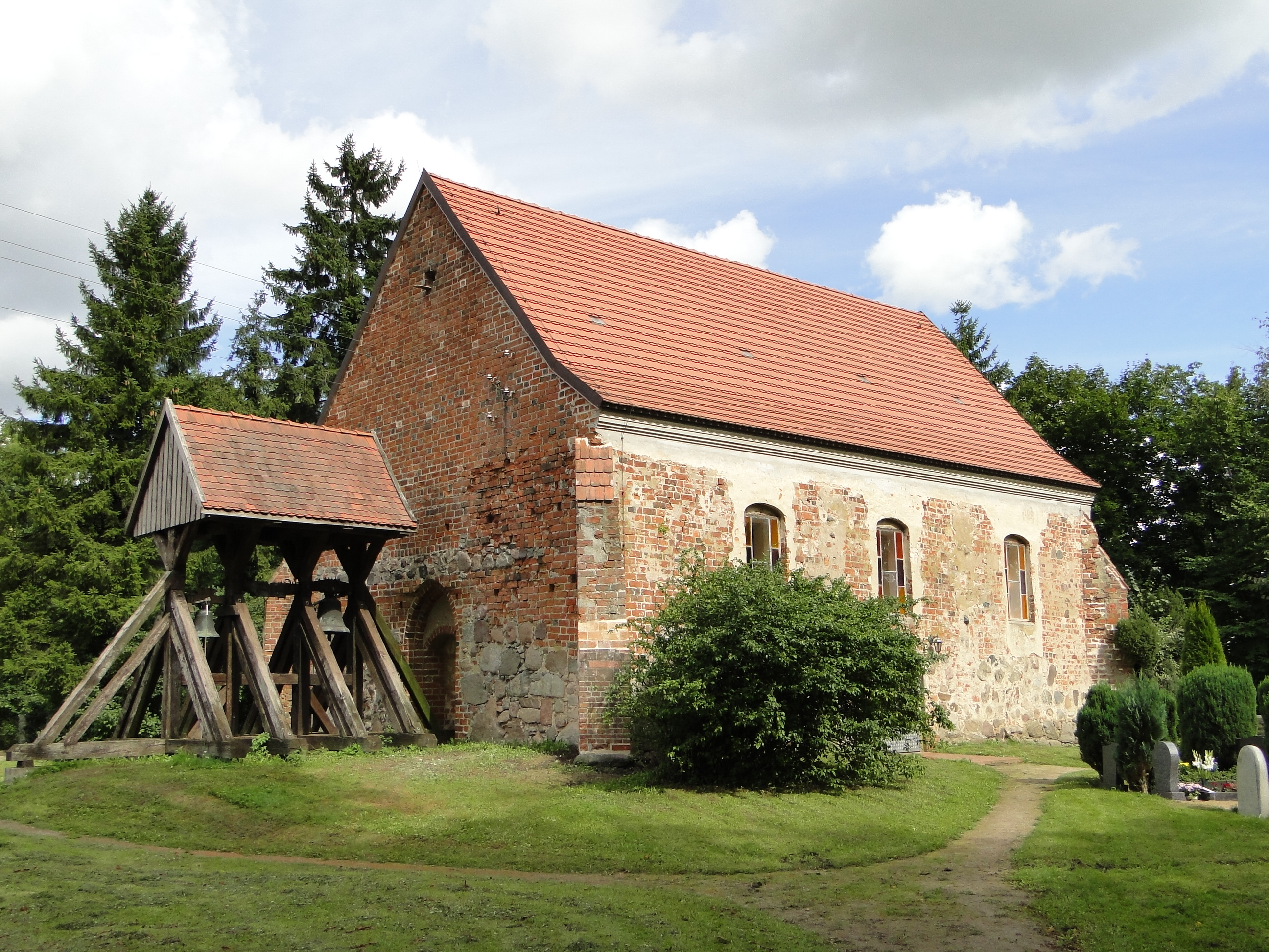 Church in Mollenstorf, district Müritz, Mecklenburg-Vorpommern, Germany